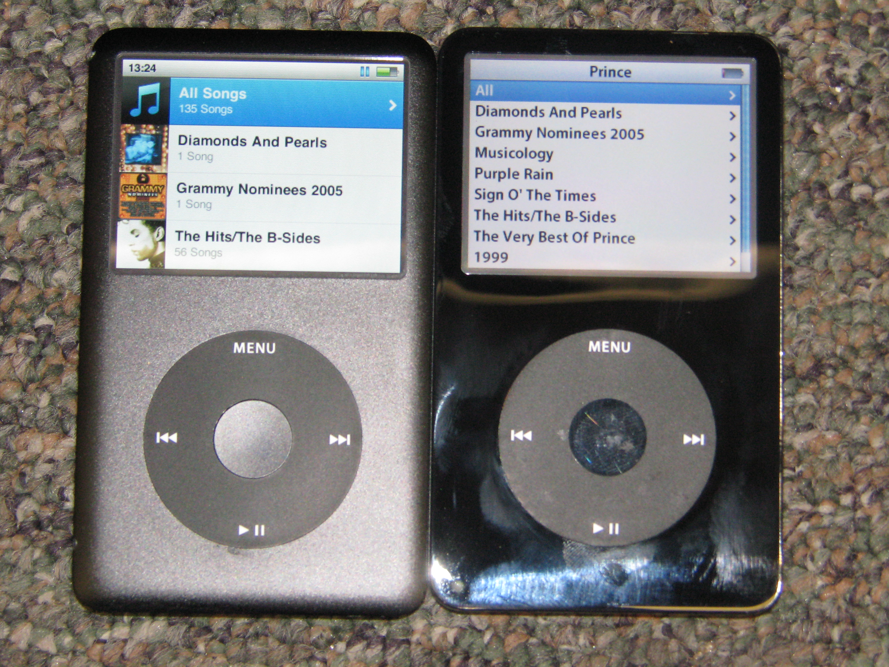 iPod classic side-by-side